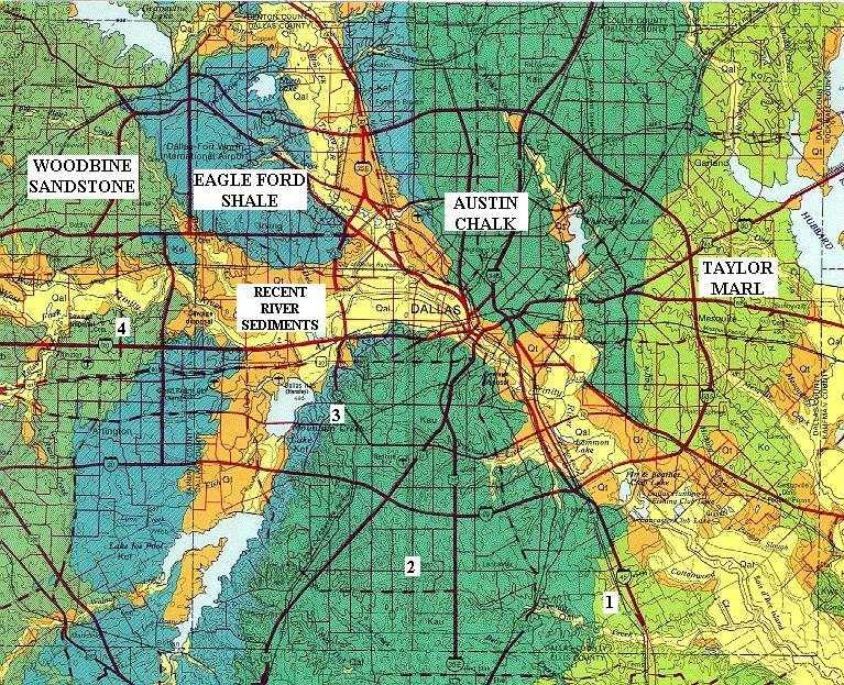 Geologic map and the labeled geologic formations that lie directly beneath the subsurface in Dallas County